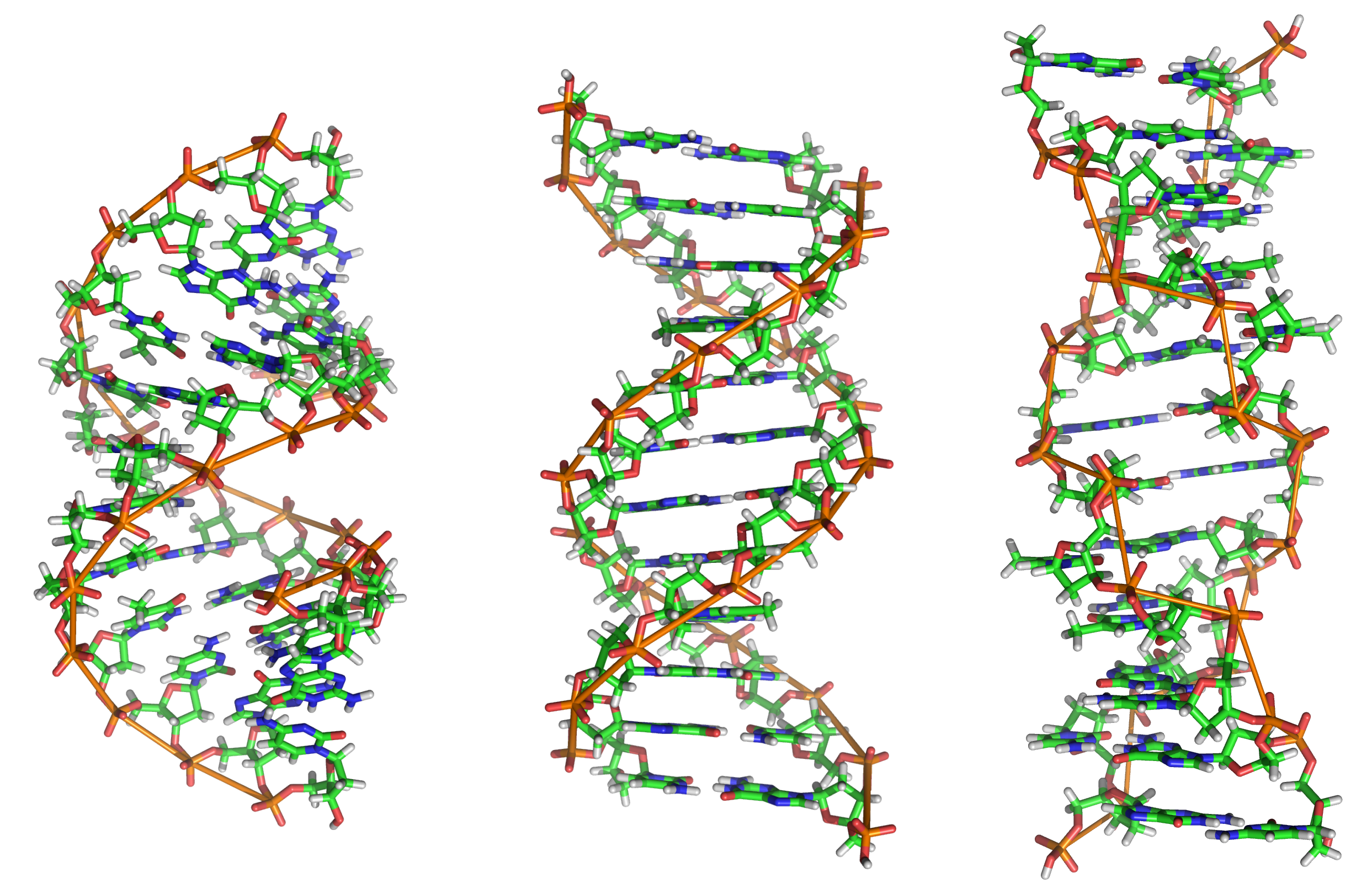 From left to right, the structures of A-, B- and Z-DNA. The structure a DNA molecule depends on its environment. In aqueous enviromnents, including the majority of DNA in a cell, B-DNA is the most common structure. The A-DNA structure is dominates in dehydrated samples and is similar to the double-stranded RNA and DNA/RNA hybrids. Z-DNA is a rarer structure found in DNA bound to certain proteins.